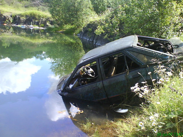 Abandoned Ford Escort in old quarry